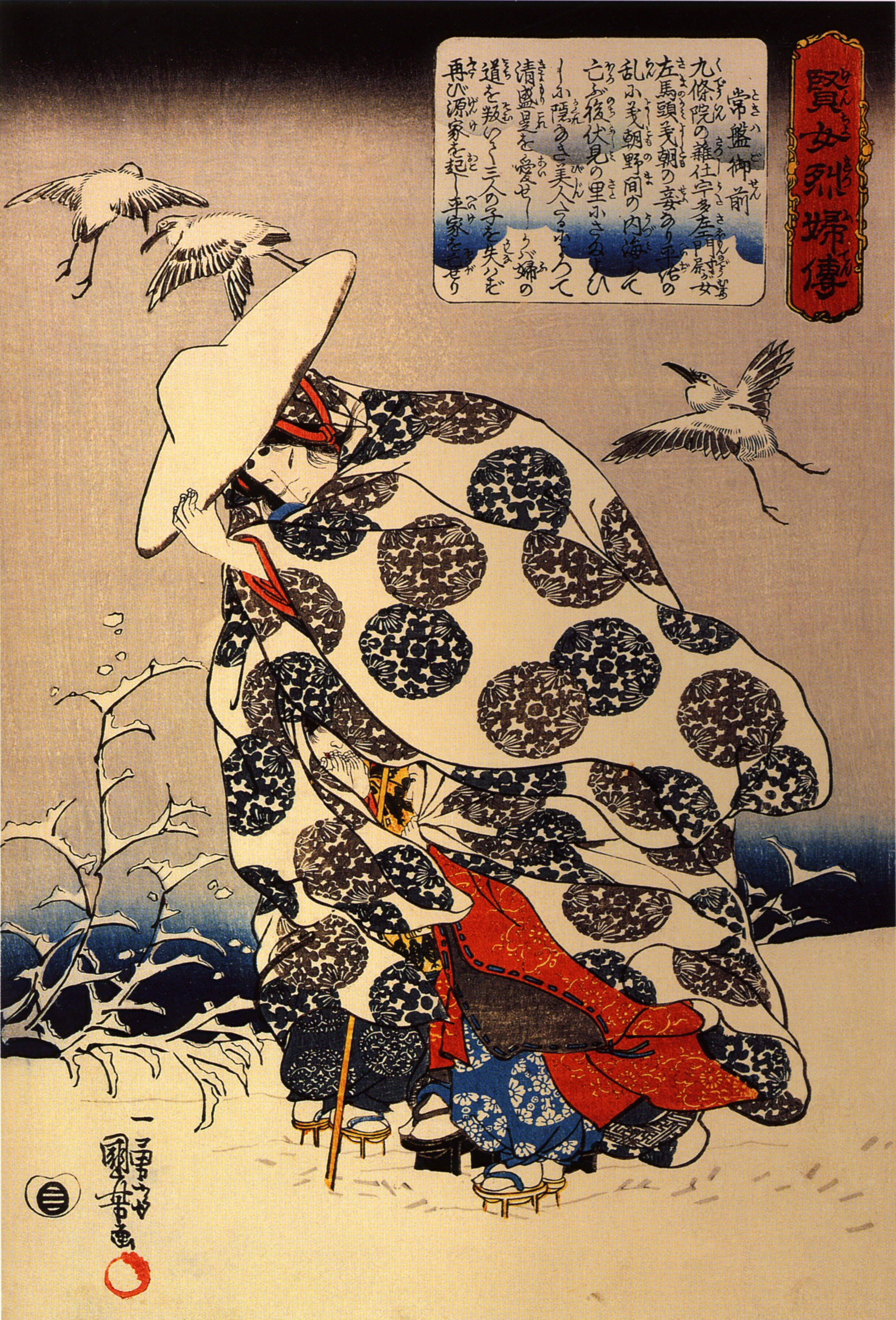 This selection is from stories of wise and virtuous women This print illustrates Tokiwa Gozen celebrated for her striking beauty. She was the wife of Minamoto Yoshitomo and mother of three sons.